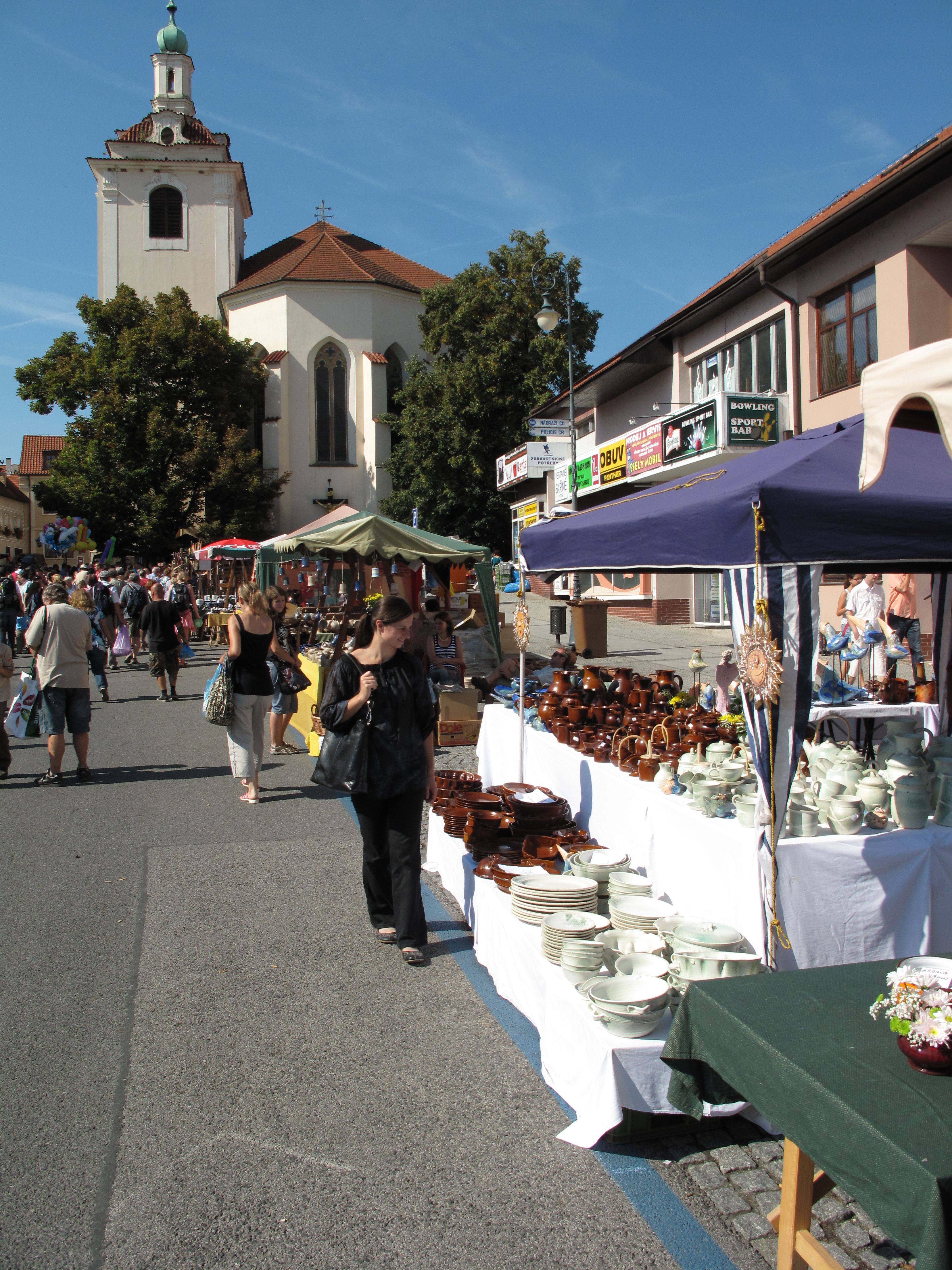 Pottery fair in Beroun in 2011 - view from the square towards the church of Saint Jacob, Czech Republic.